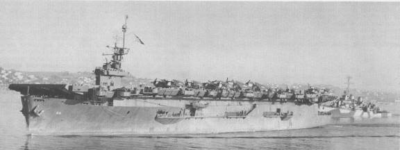 White Plains (CVE-66) at San Diego, 8 March 1944, with Wildcat fighters and Avenger torpedo bombers on her deck She is followed by a Fletcher-class destroyer in the pattern camouflage widely used in the Pacific during 1944.